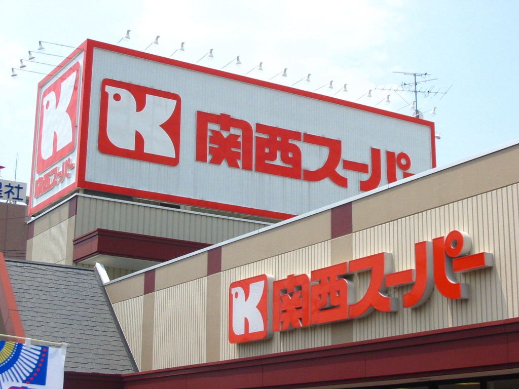 A Kansai Super (関西スーパー) located in Nada District, Biwa Block of the city of Kobe, Japan. (神戸市灘区琵琶町3-5-19) I took the photo on 4 June 2005 (timestamp is set for Eastern time in the US).